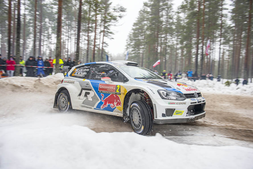 Rally Sweden 2014 Fredriksberg 1,Jari-Matti Latvala,Mikka Anttila,Motorsport,Rally,Rally Sweden,Rallye,Rallye Schweden,SS9,VW Polo R WRC,Volkswagen Motorsport,Volkswagen Polo R WRC,WP9